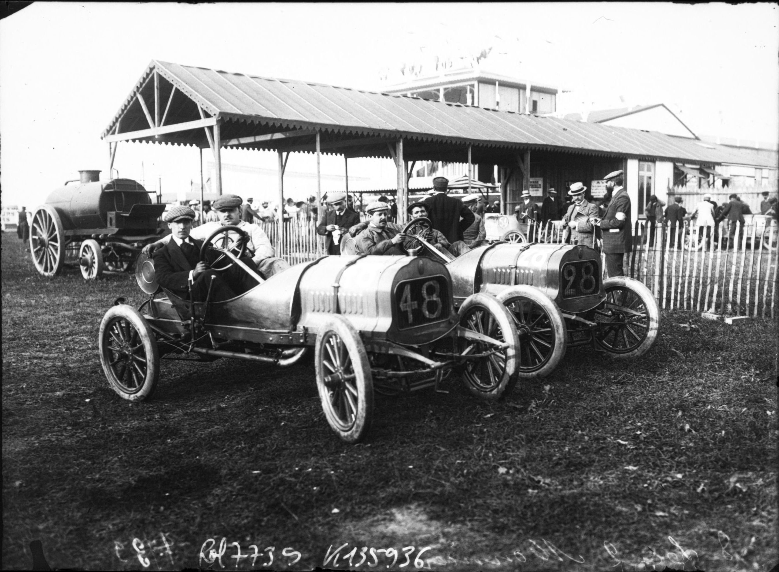 Carlo Pizzagalli (#48) and Monnier (#28) in Monniers at the 1908 Grand Prix des Voiturettes at Dieppe.